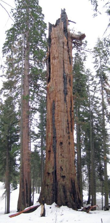 Washington tree (2005 February) post storm, Sequoia National Park, Giant Forest grove